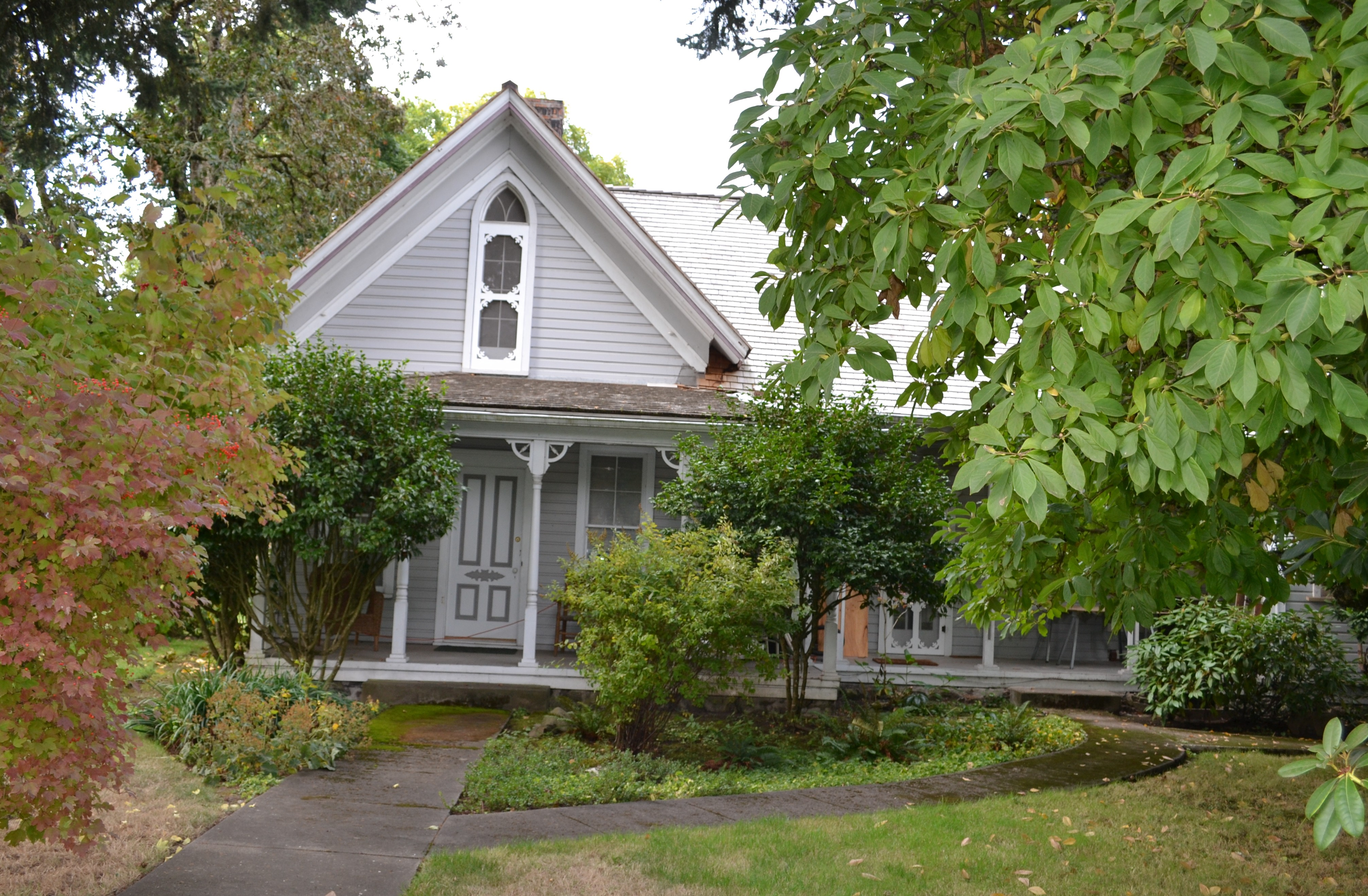 Robert E Campbell House (Eugene, Oregon)